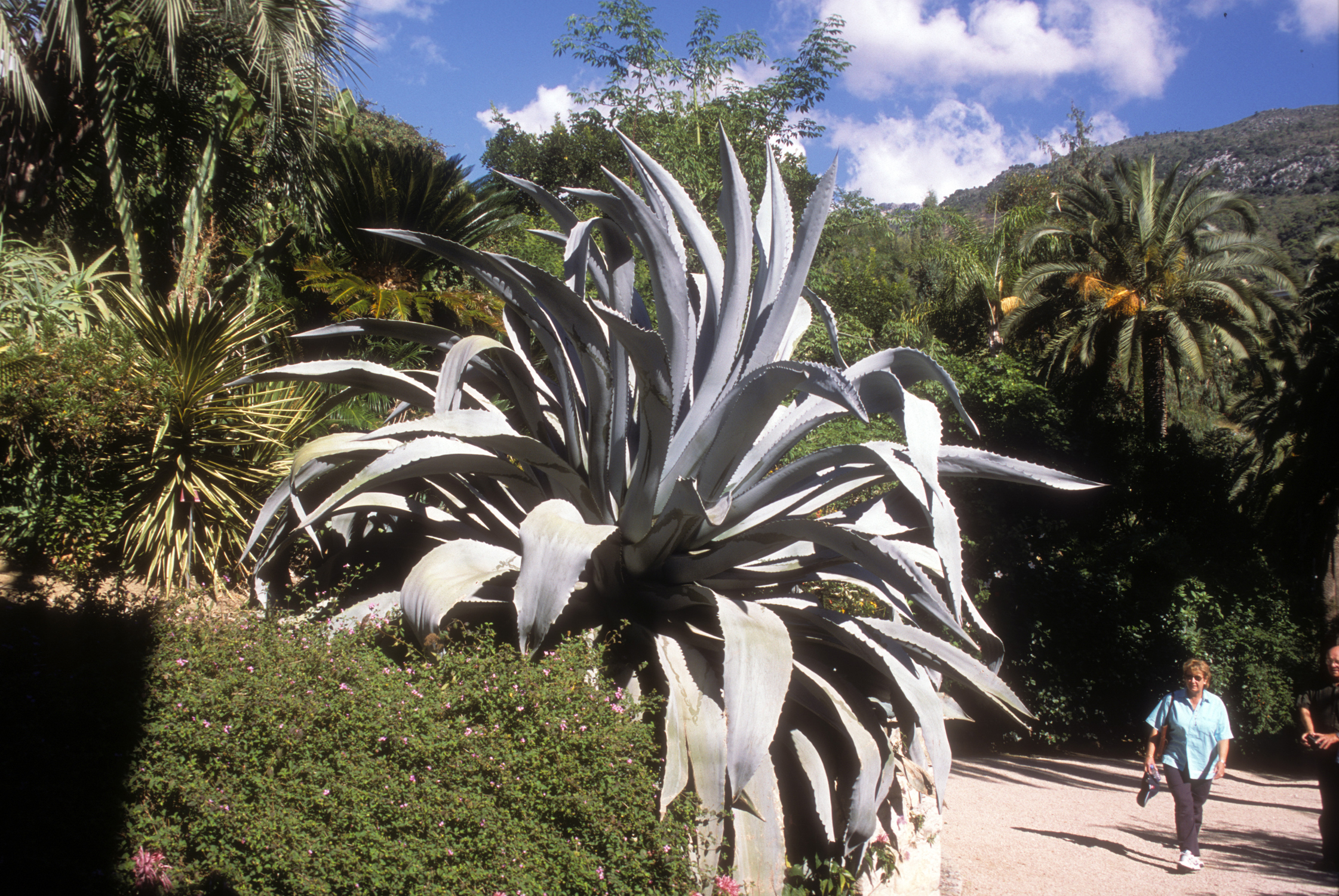 Agave franzosinii at Val Rahmeh, Menton, France